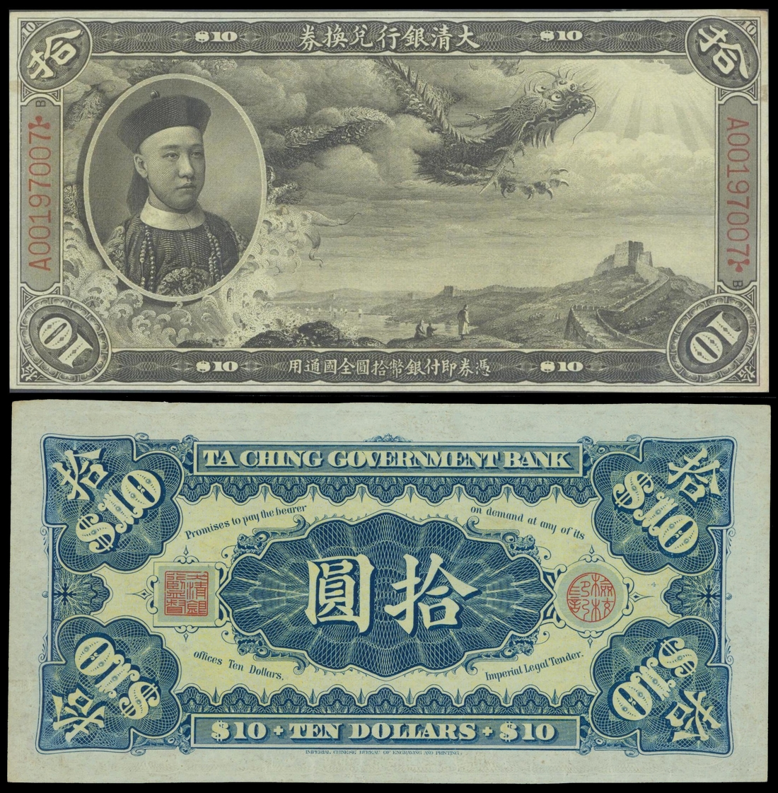 Banknotes issued by the Ta-Ching Government Bank in the year 1910 depicting Prince Zaifeng.